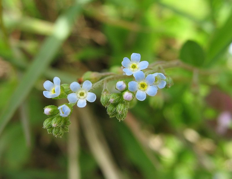 Photograph of Trigonotis peduncularis,taken in Machida city, Tokyo, Japan. Croped & resized.